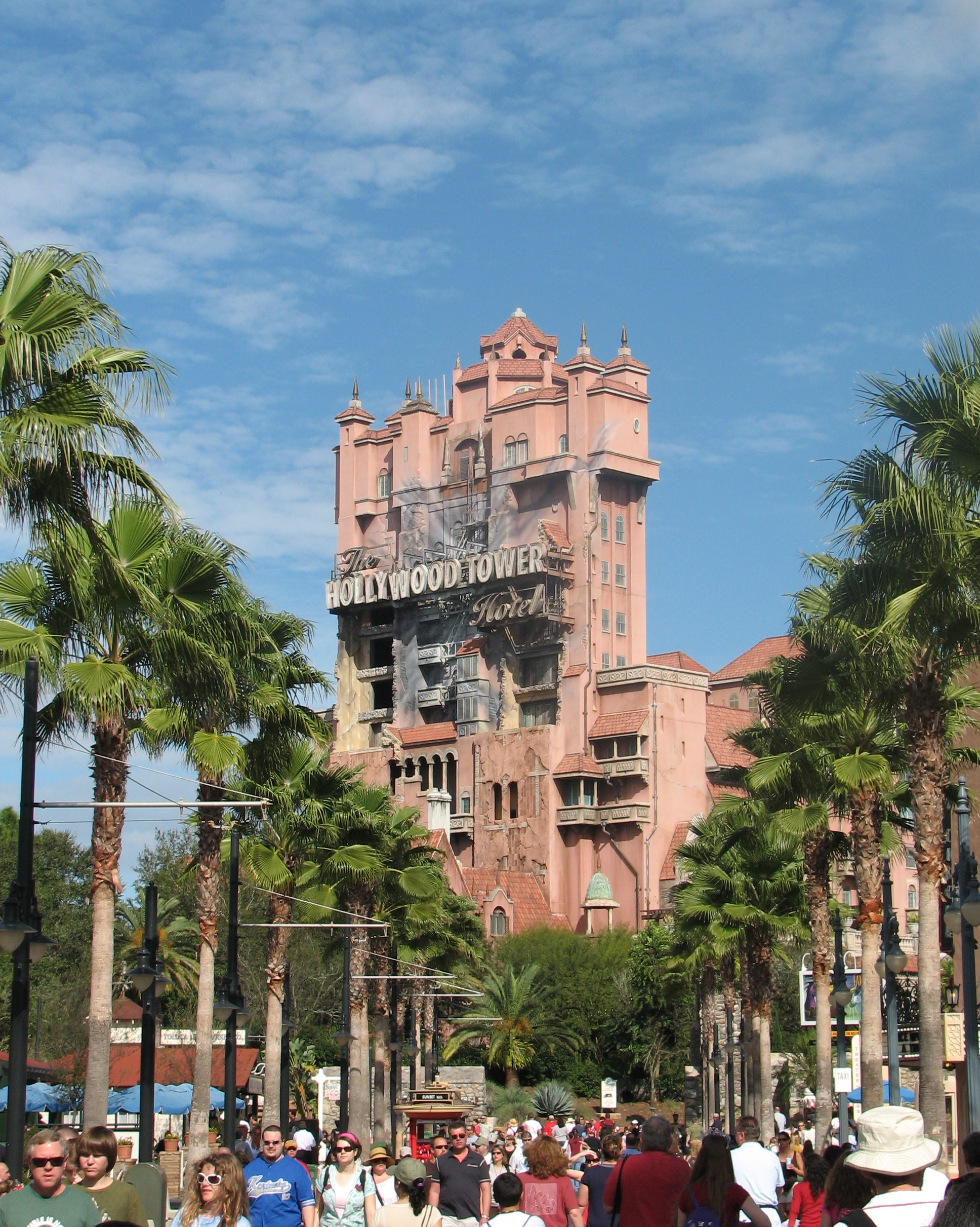 A view down Sunset Boulevard in Disney's Hollywood Studios, showing the Hollywood Tower Hotel. This sinister building houses the Twilight Zone Tower of Terror attraction.